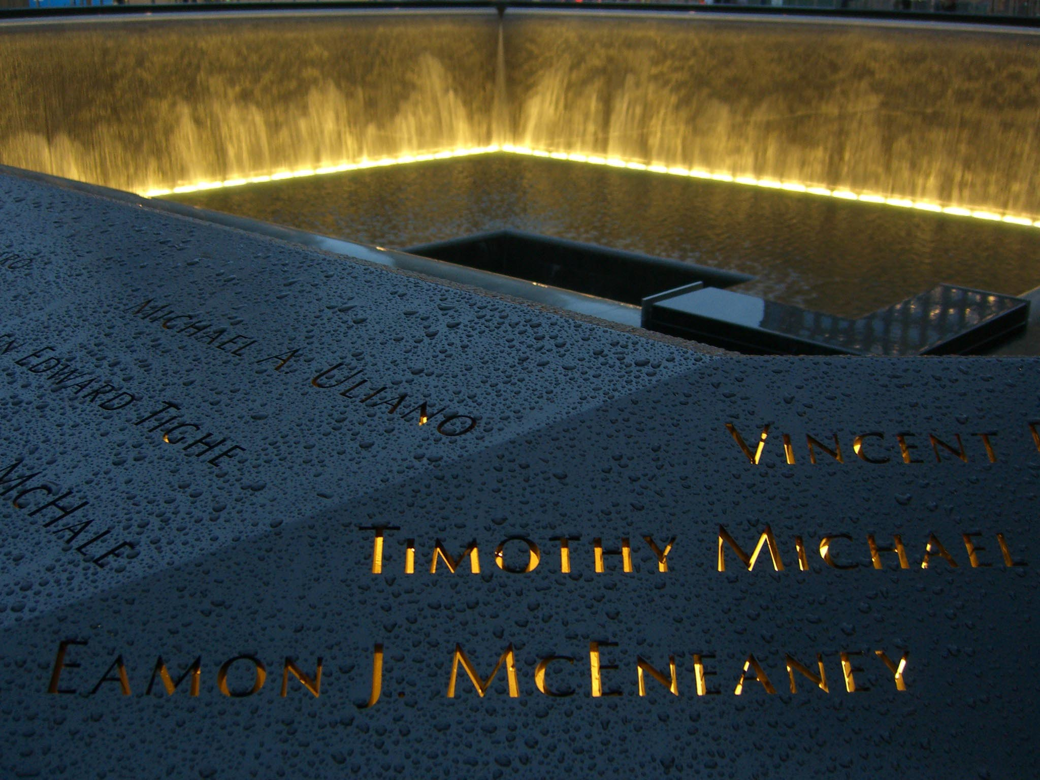 The name of 9/11 victim Eamon McEneaney inscribed in bronze on panel N-57 of the North Pool of the National September 11 Memorial in Manhattan, along with other employees of Cantor Fitzgerald who died in the attacks, as seen on December 6, 2011. This photo was created by Luigi Novi. If you have any questions, you can contact me by sending me an email or User talk:Nightscream